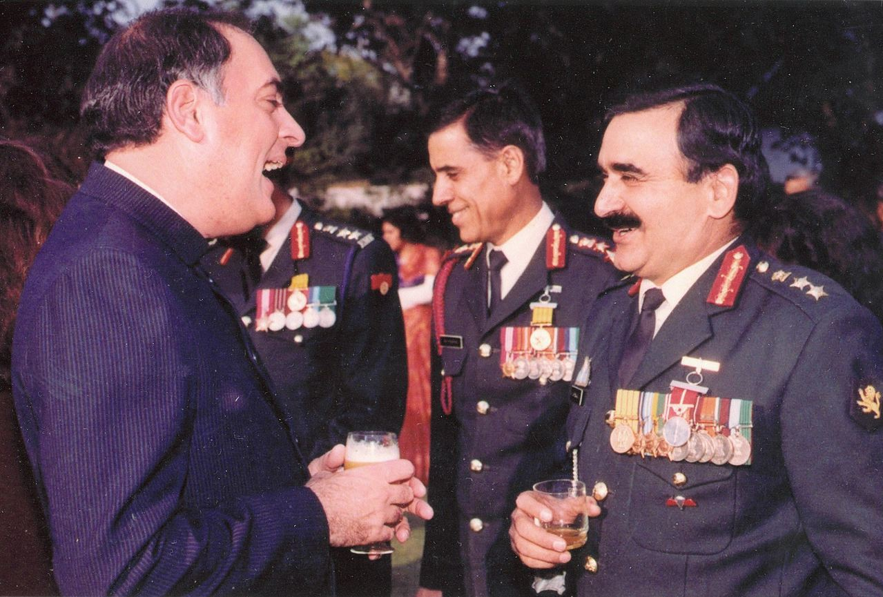 From the personal collection of Col. JK Bajaj, SM, VSM, FRGS Converted from slides by Col. Bajaj.